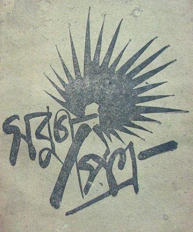 Logo of Sabujpatra. First issue 1914